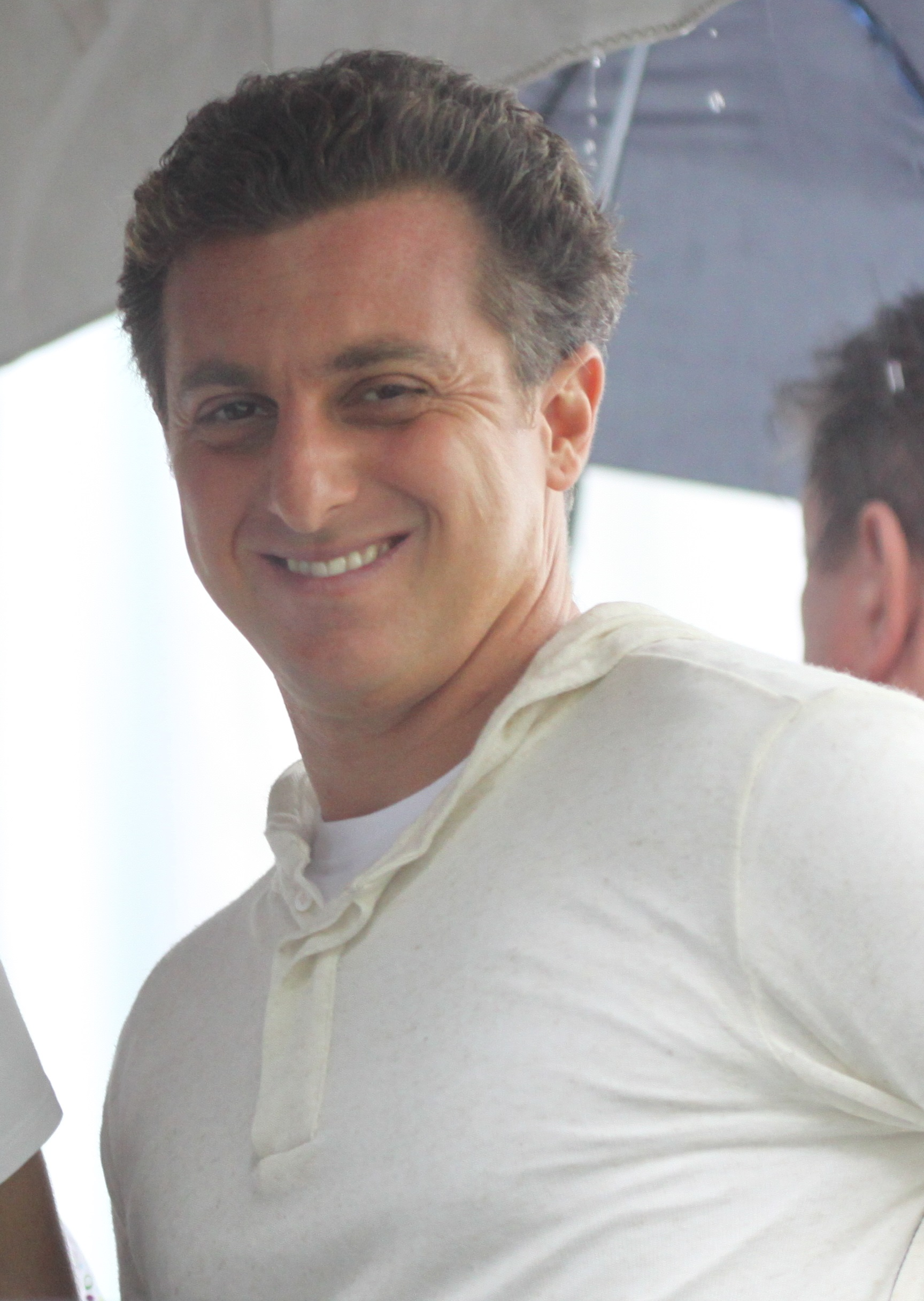 Luciano Huck, at the Miami Brazilian Day, of the Cauldron Huck has hosted the popular programs Programa H and Caldeirão do Huck. He started with the youth show Programa H on weekday nights at Band and the show soon became a huge hit (in part because of the dancers Tiazinha and Feiticeira). He soon signed with media giant Globo in 1999 and since then his Saturday show Caldeirão do Huck, targeted at teenagers, is the winner in its time-slot. He is also a very successful businessman, with several products with his name and he is the owner of a five-star hotel in Fernando de Noronha. His relationship with Angélica was huge celebrity news and they have two sons: Joaquim, born in 2005 and Benício, born in 2007.